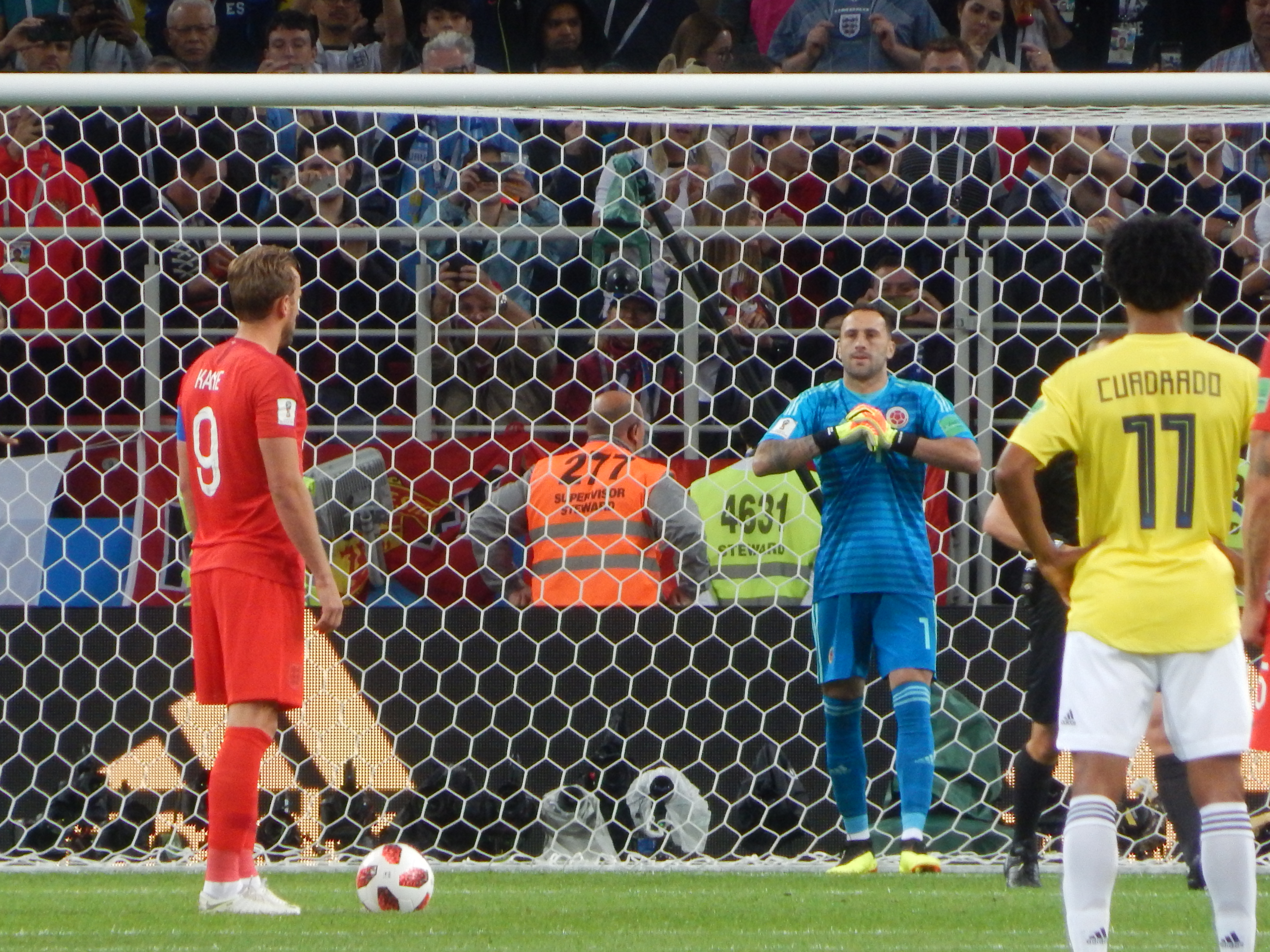 FIFA World Cup 2018, Round of 16, Colombia vs. England